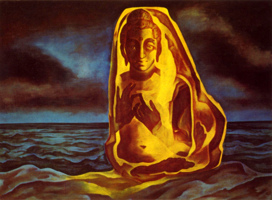 "Fossiler Budda" shows a Budda incorporated in an amber at a sea shore by Elsa Olivia Urbach.